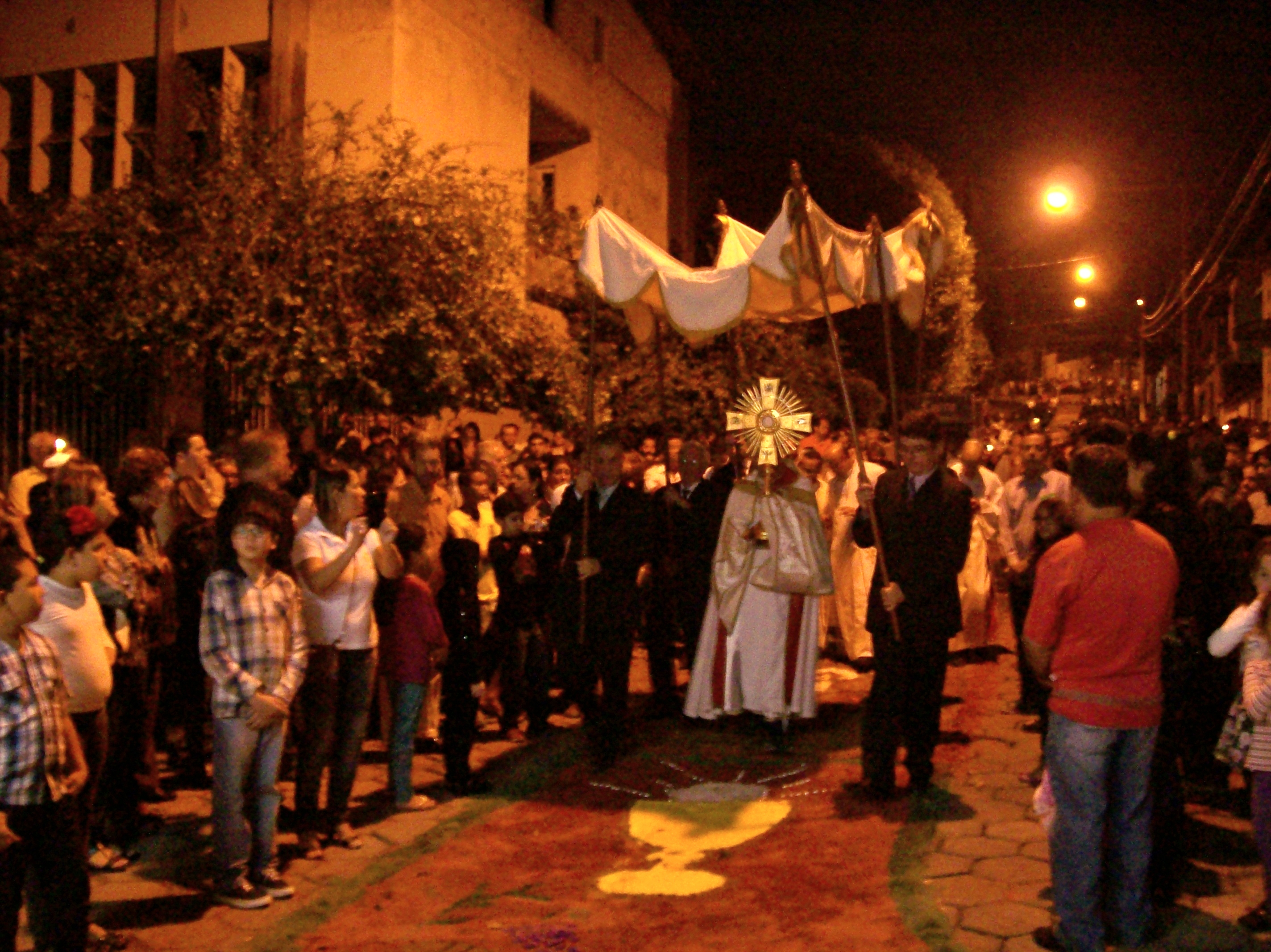 The Holy Communion during the Corpus Christi procession of the Saint Sebastian Parish, in Coronel Fabriciano, Minas Gerais, Brazil.